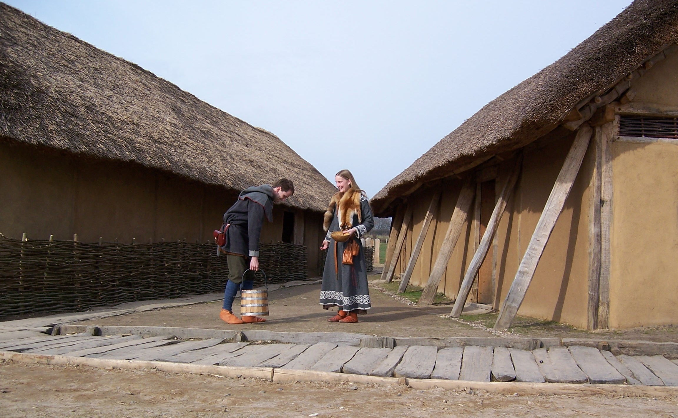 Author: Caravaca. Date: April 2006. Description: Reconstructed Viking houses at Hedeby (Haithabu) in Northern Germany.